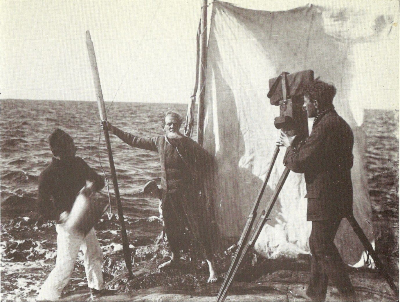 Picture from the shooting of Victor Sjöströms Terje Vigen (1916). Picture taken at Landsort in the Stockholm archipelago. Sjöström in the middle as Terje, Julius Jaenzon at the camera. Scanned from the book Victor Sjöström by Bengt Forslund (1980).